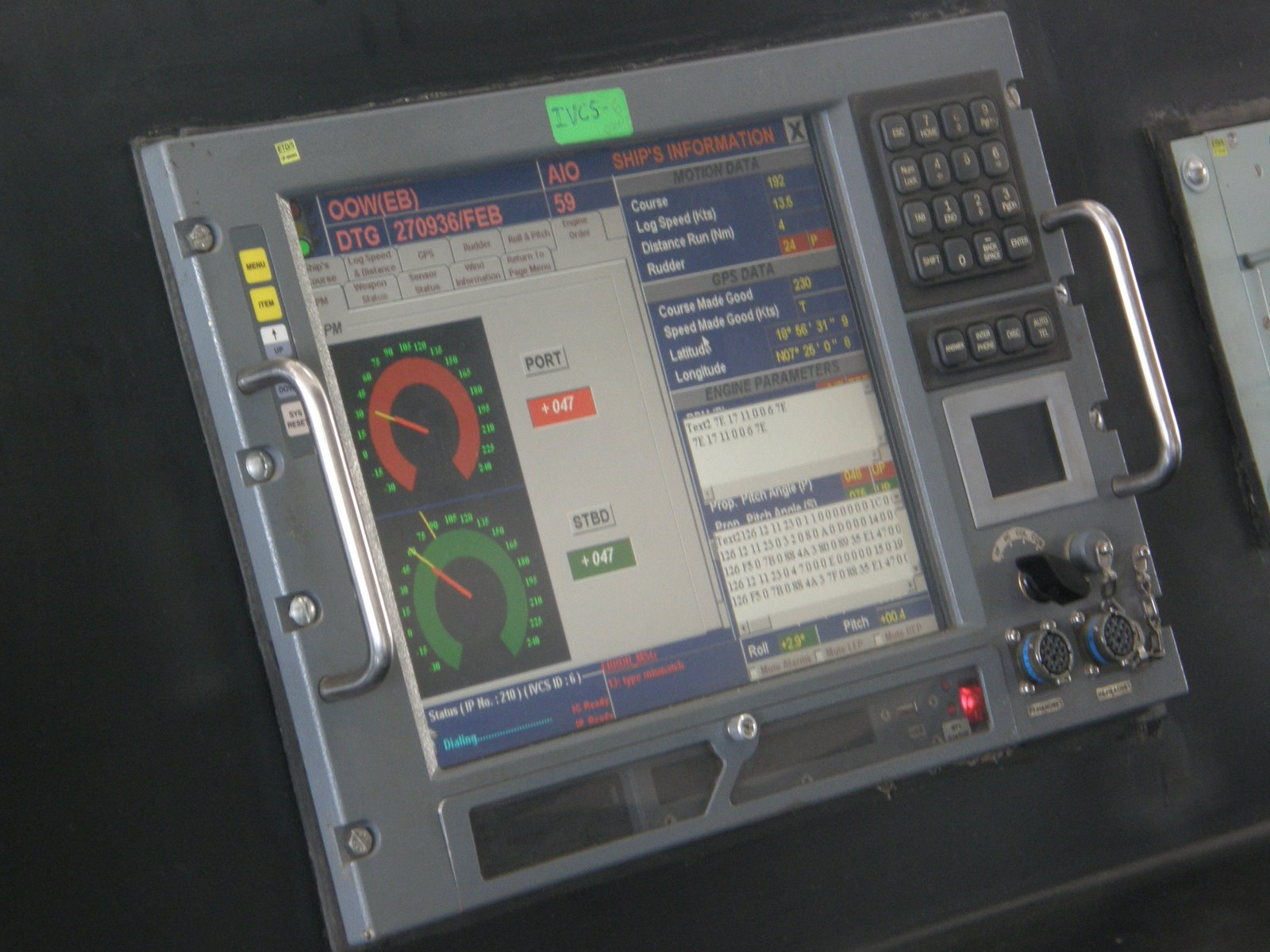 The Captain's Integrated Versatile Console System (IVCS) aboard the INS Shivalik (en), a stealth frigate operated by the Indian Navy. The IVCS is a multi-function, touch-screen console which provides navigational information, the ship’s course, position, and its engine parameters, in order to aid the captain in navigating the ship.